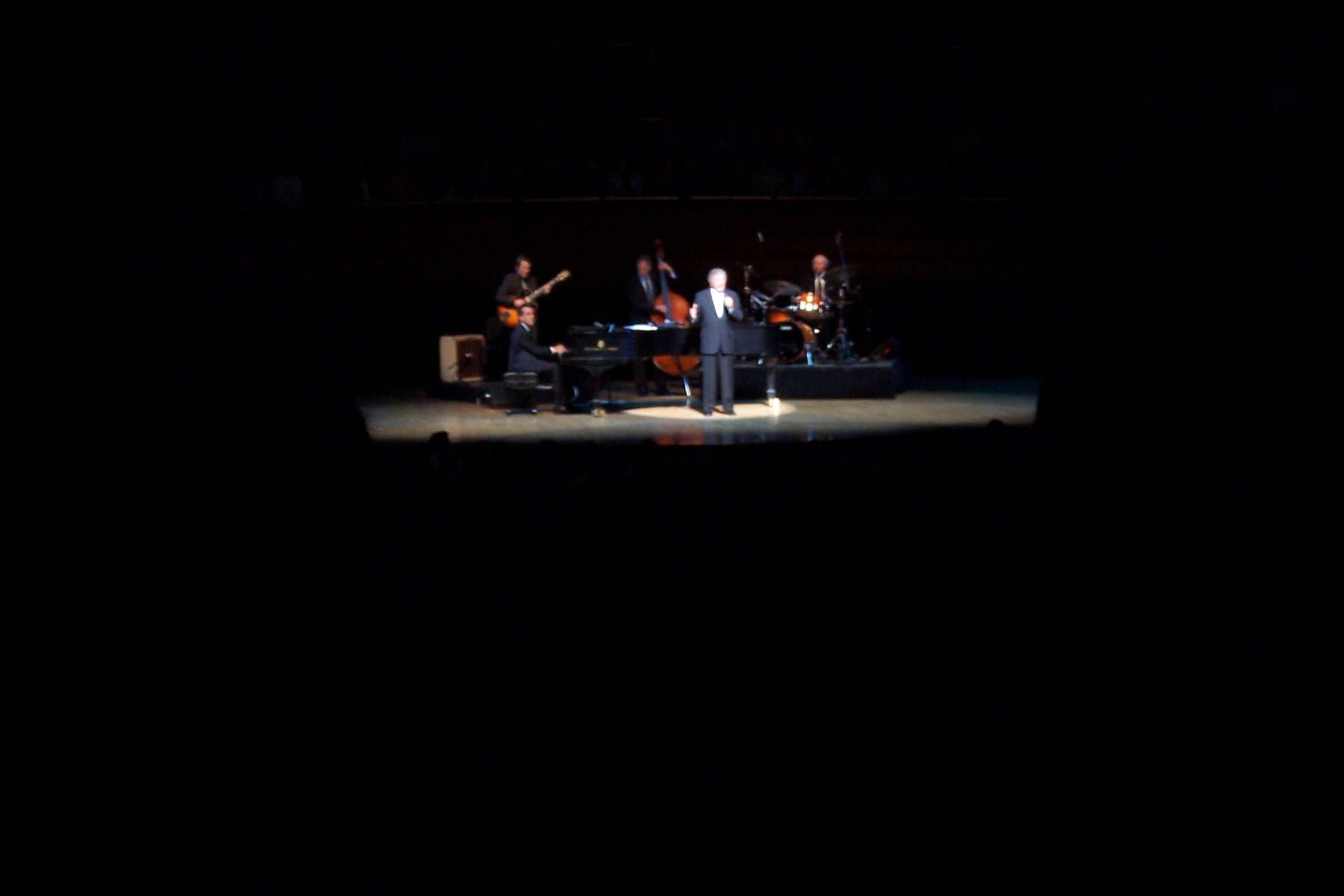 Tony Bennett performing at Verizon Hall in Kimmel Center for the Performing Arts in Philadelphia, Pennsylvania